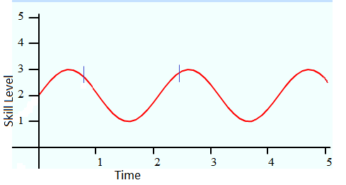 The two blue lines section off a single "U" on the graph